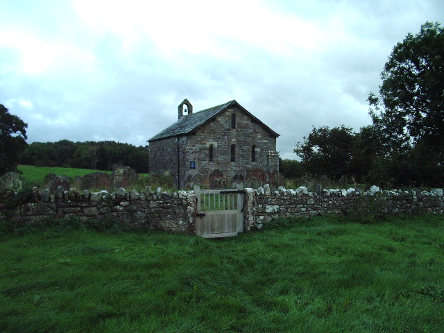 Ireby Old Chancel, near to Ireby, Cumbria, Great Britain.